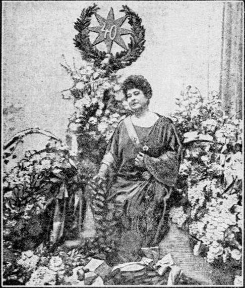 Julia Cuypers 40 year aniversary